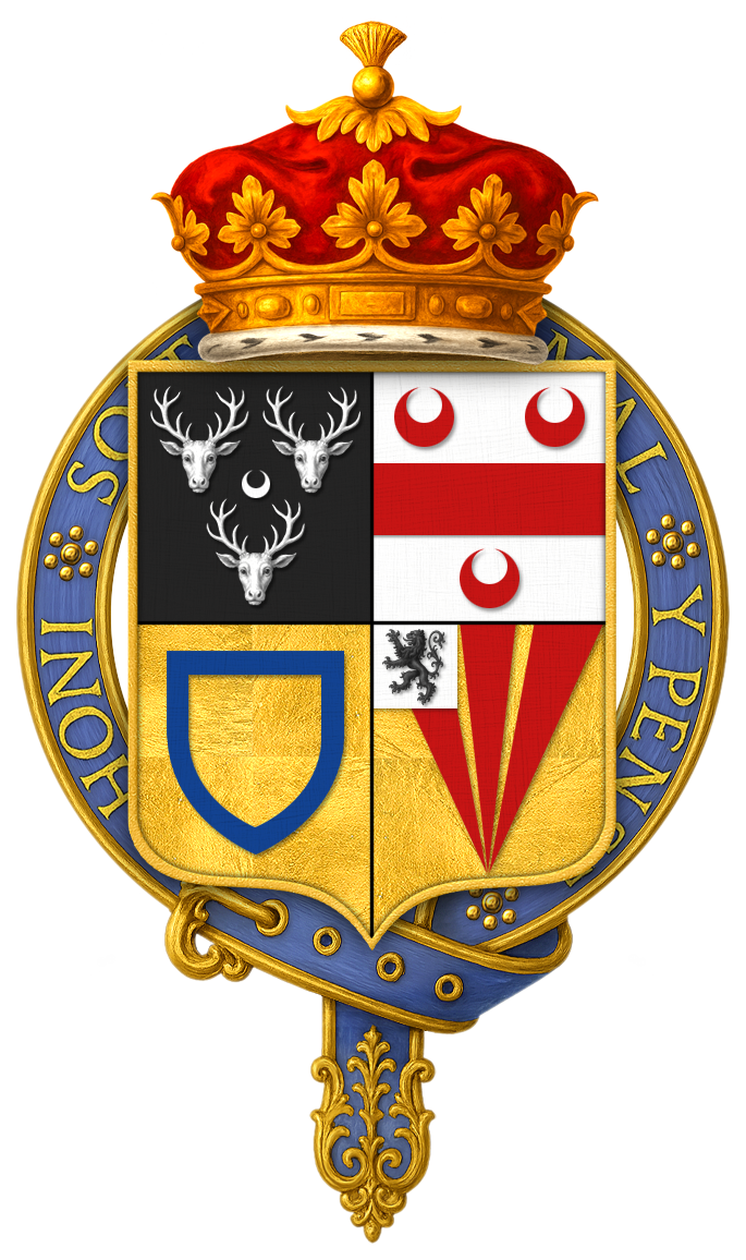 Coat of arms of Henry Cavendish, 2nd Duke of Newcastle-upon-Tyne, KG, PC